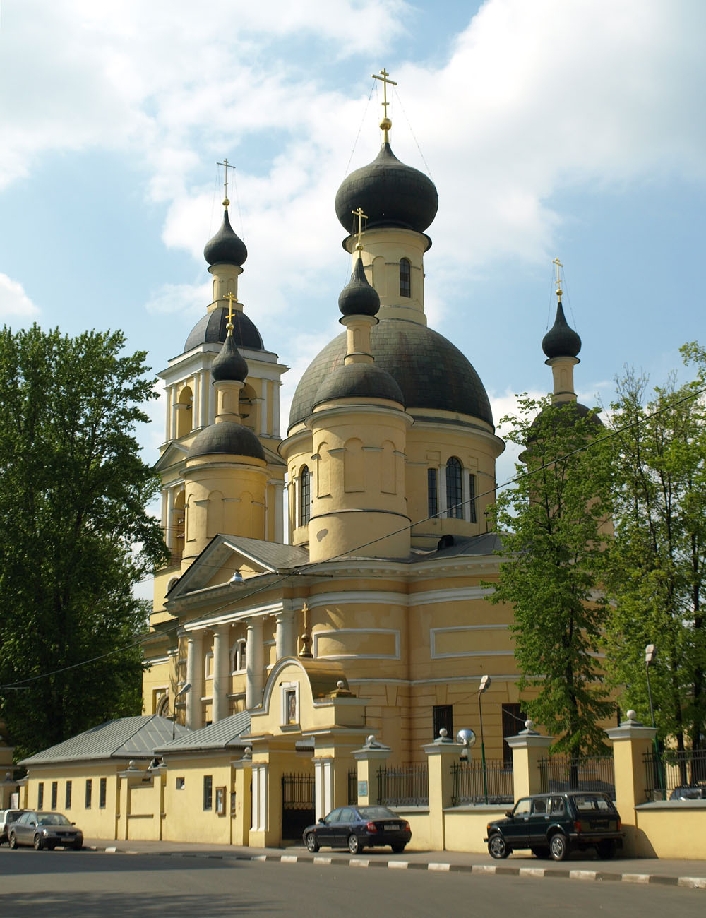 Old Believers' church of Presentation of Mary in Lefortovo District of Moscow. 1819.